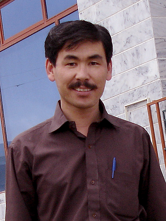 taqi bakhtyari